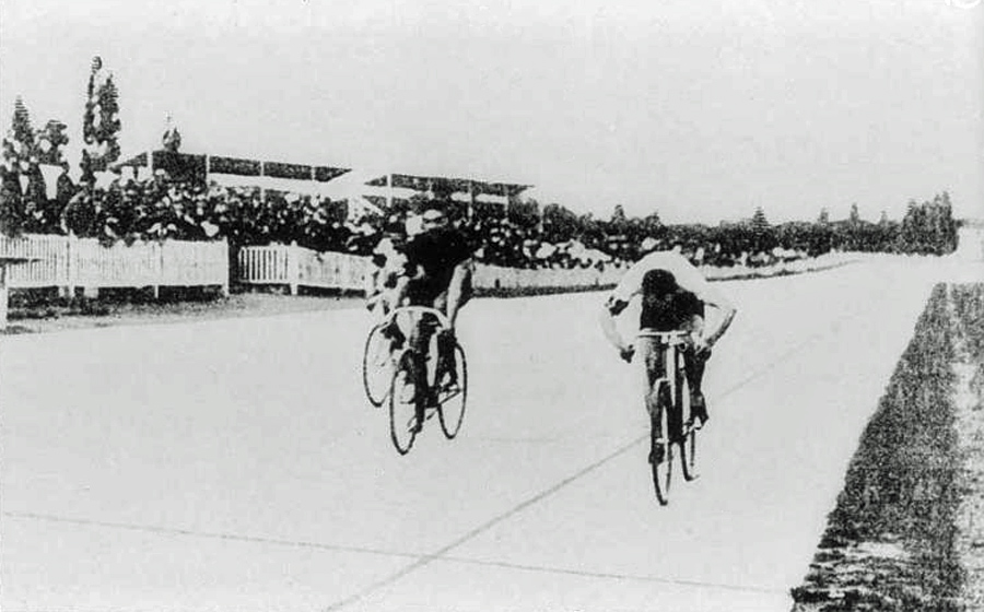 Fernand Sanz at the Paris Olympic Games of 1900, 2nd in the 2000 m sprint